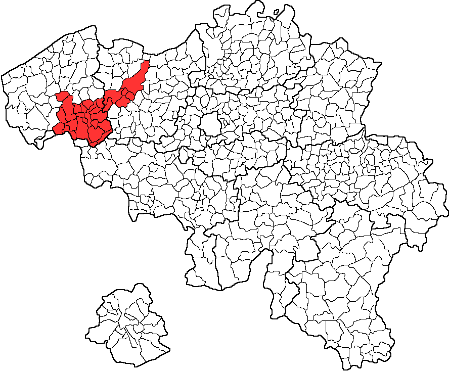 Municipalities in the region Leiestreek, Belgium